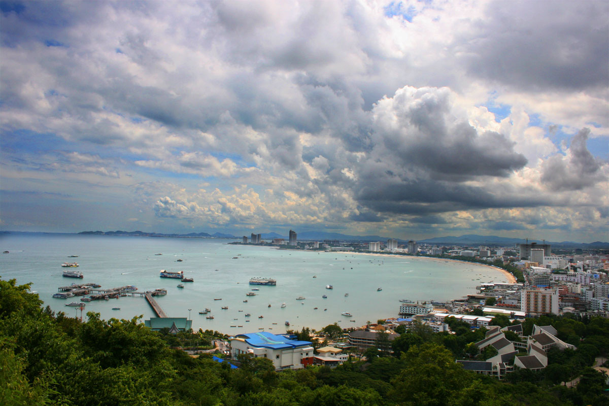 Pattaya Beach, Thailand